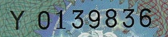 A serial number on an offical German personal identification document.